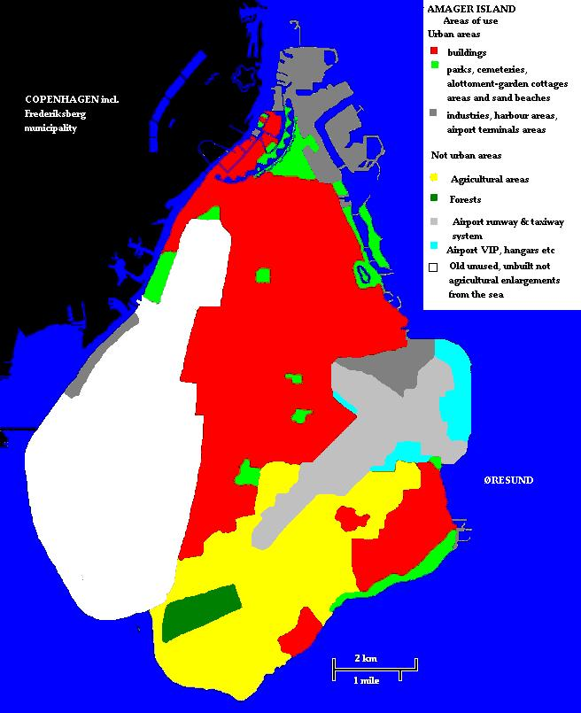 A part of Copenhagen, Denmark, is on the island Amager. This picture made in MS PAINT over (all pixels) an Google Map. Reason to show how the different part of this island are used. Not the enture island is urban, only the north, west and pcentral parts. White area is an enlagement from the sea - and is not used for anything. Copenhagen Airport is on Amager island (EKCH / CPH).Amager is the largest and by far most populated island in Øresund.